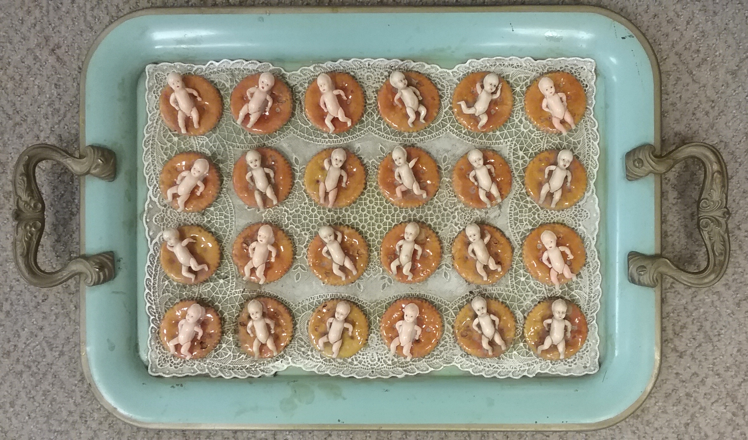 Image of a Sculpture by Winslow Anderson of babies on a tray mounted to Ritz crackers.